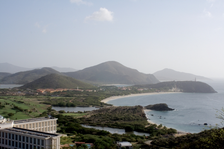 Hesperia Hotel in Margarita Island, Venezuela.